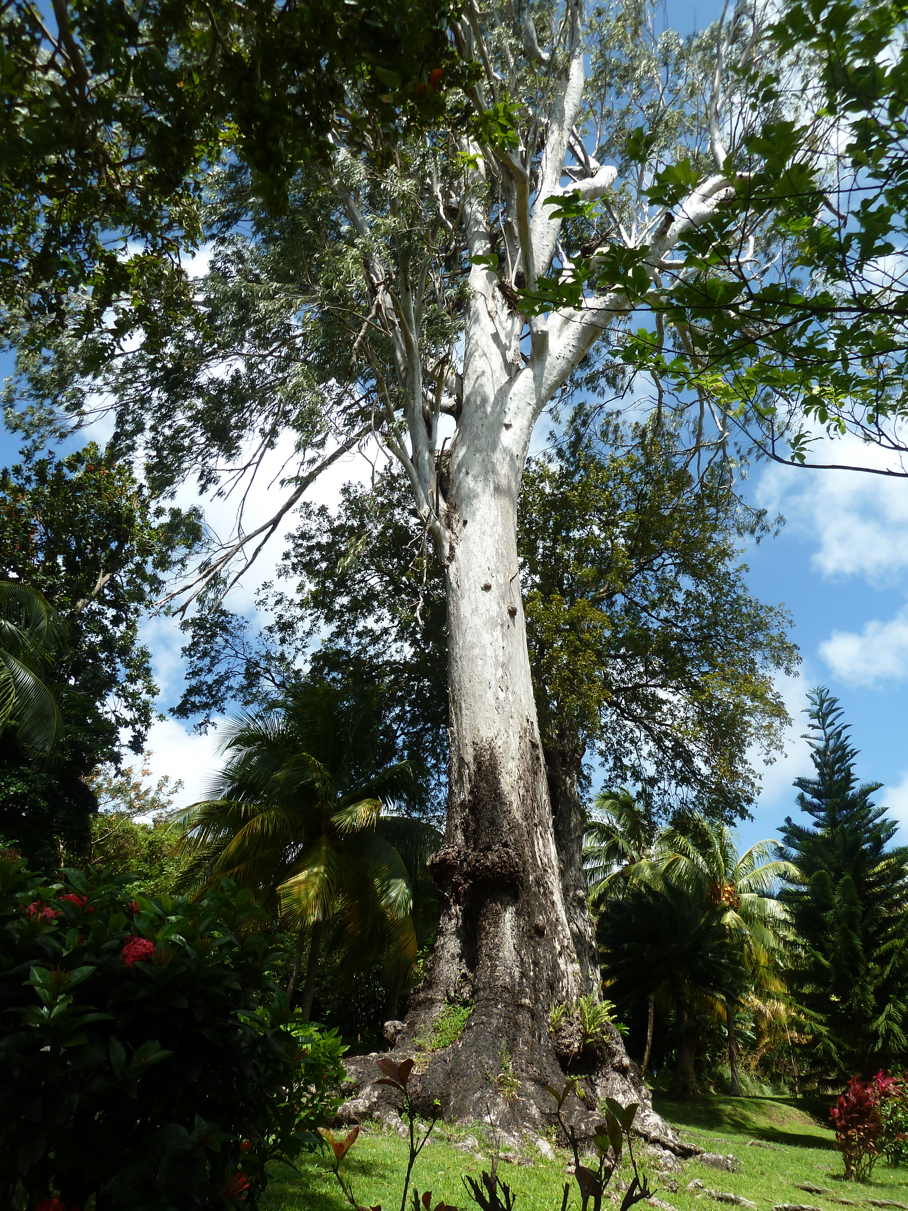 St. Vincent, Karibik - Botanical Garden of Kingstown - Eucalyptus tree